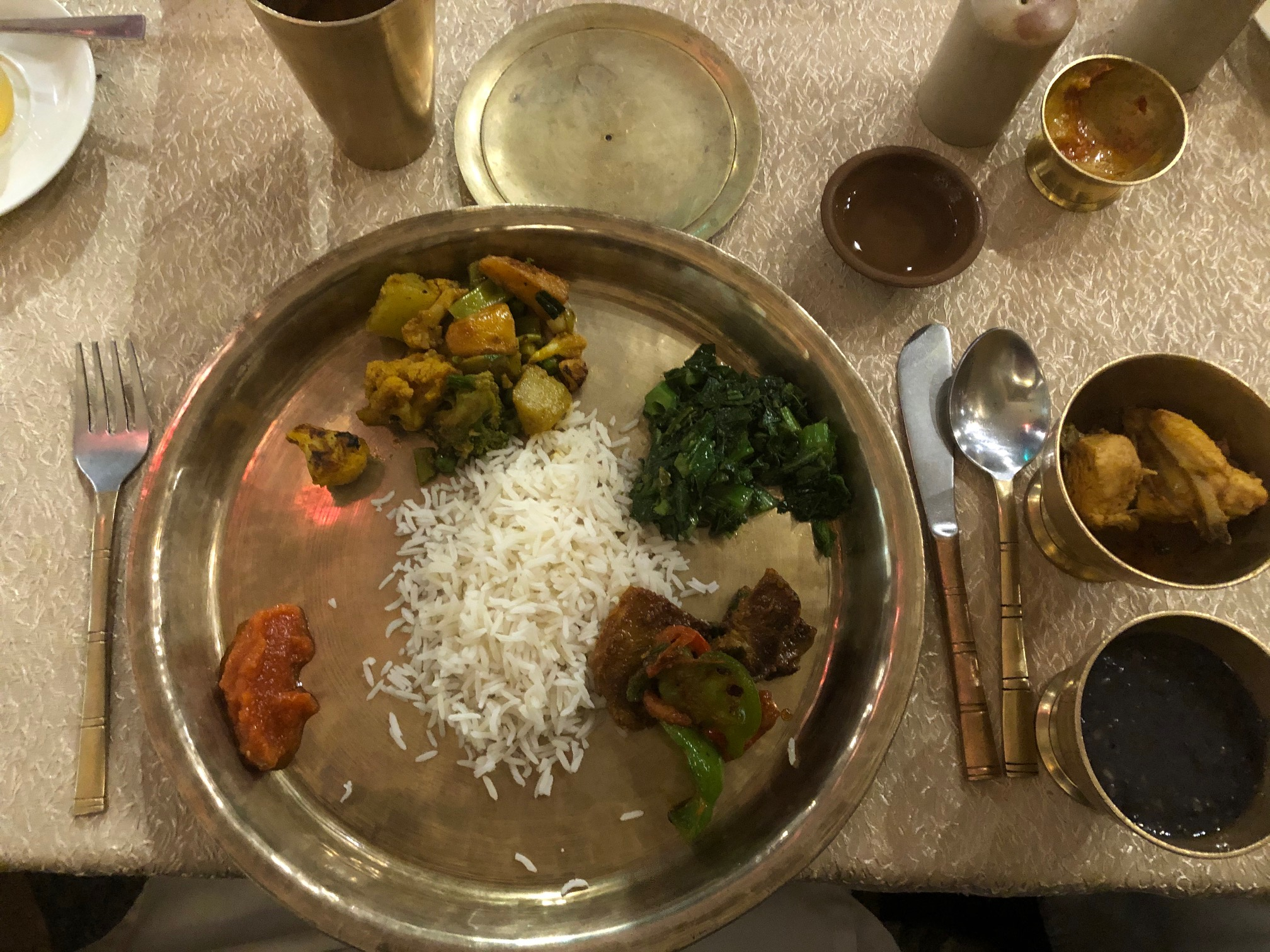 This photo has been taken in the country: Nepal